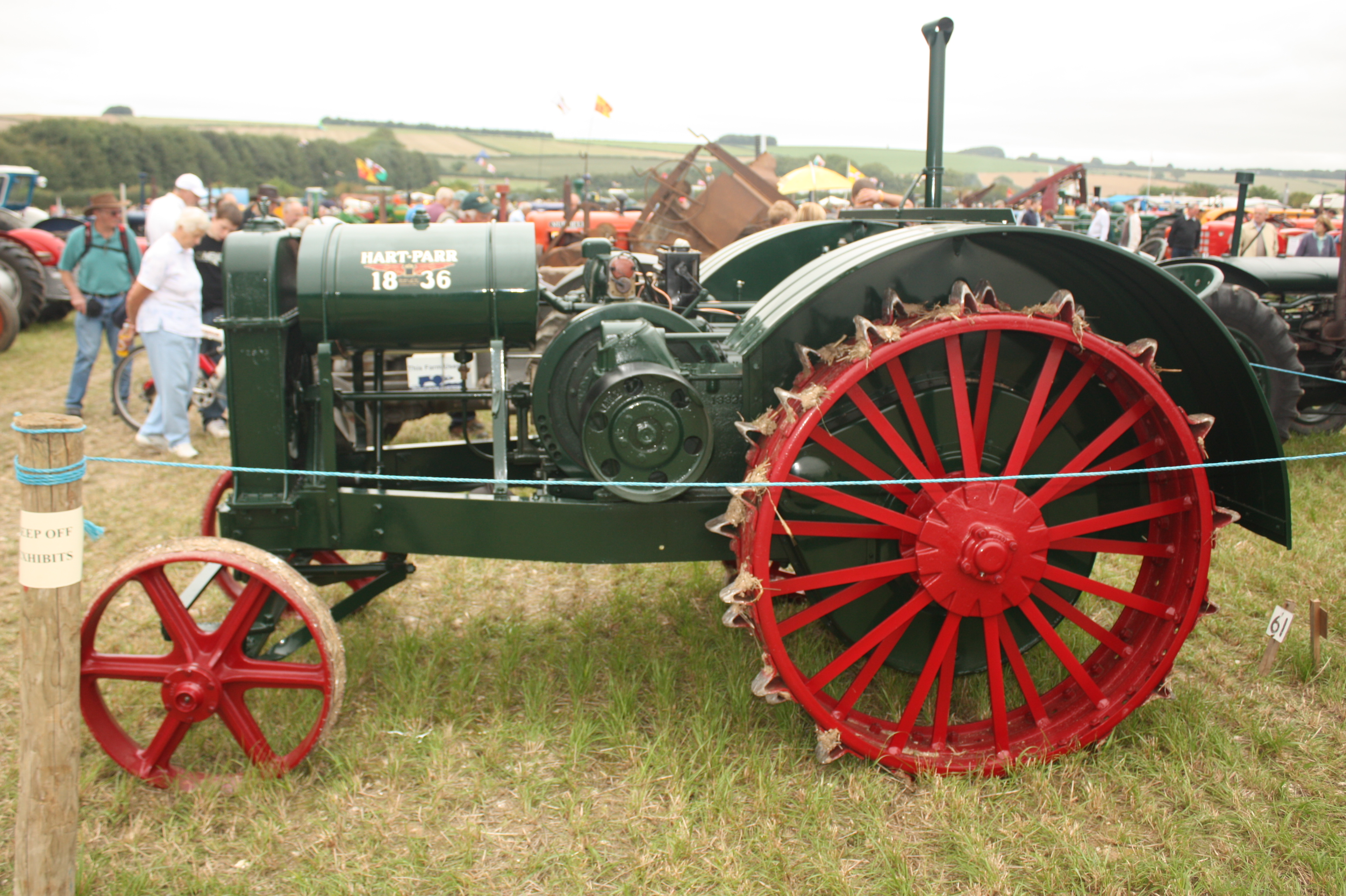 A Hart-Parr 18-36 tractor (sn 30161) on display at Great Dorset Steam Fair (GDSF) 2008, England